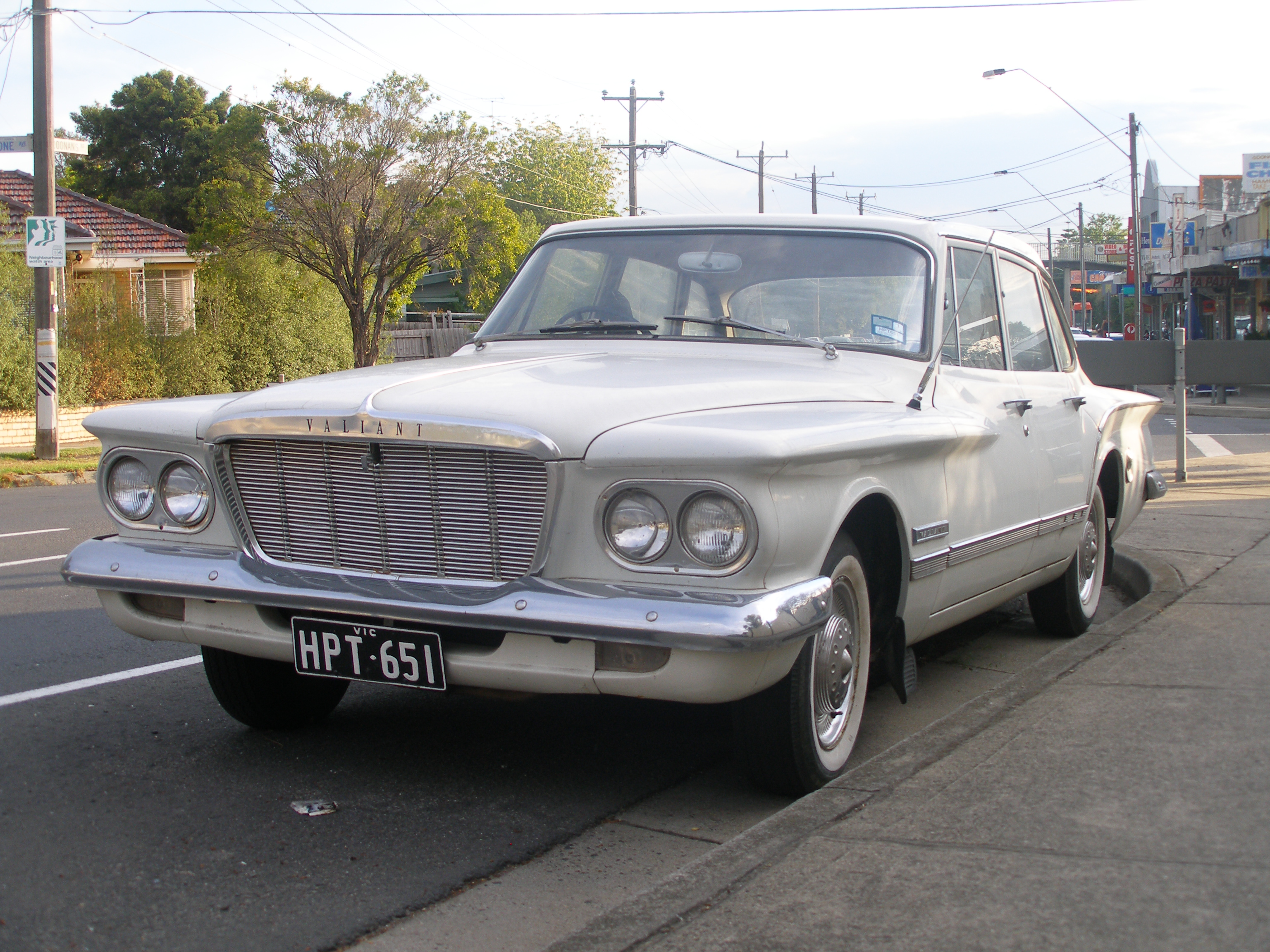 NOW we're talkin'!! An SV1 series Valiant; one of the cooler vehicles on the road at the time (1963), and still pretty damn nifty today! Classic lines, which shat all over the equivalent Holden and Ford offerings...